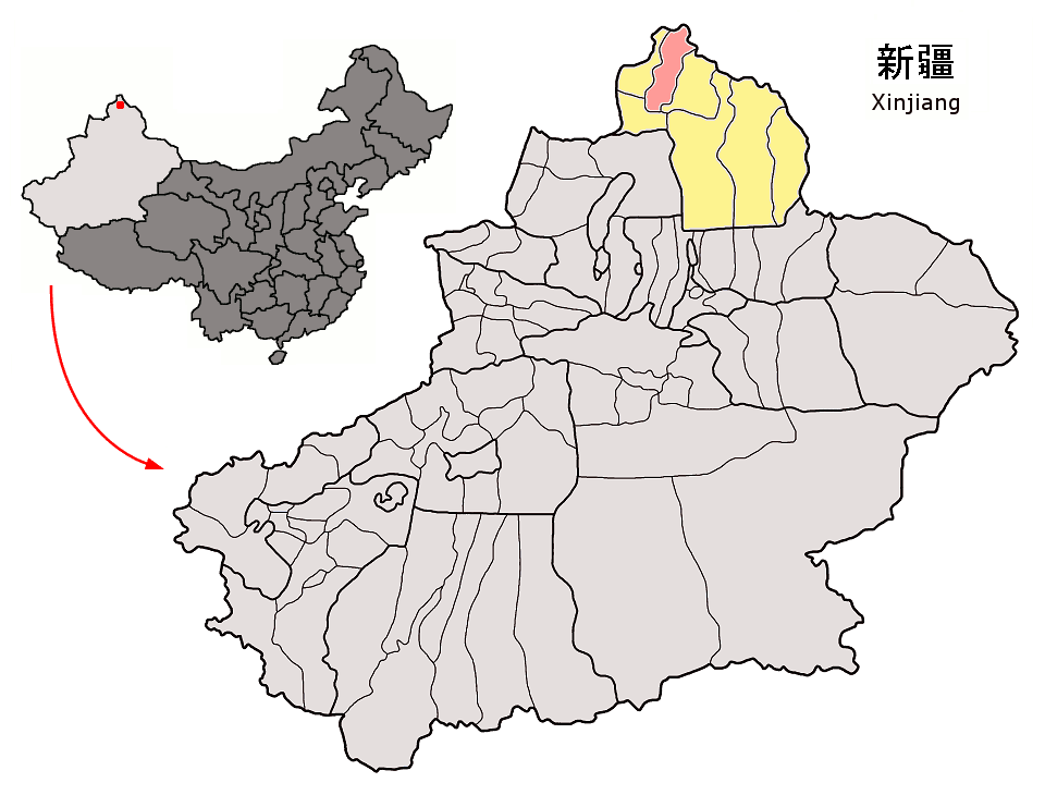 Location of Burqin County (pink) and Altay Prefecture (yellow) within Xinjiang autonomous region of China Map drawn in september 2007 using various sources, mainly : Xinjiang Uygur autonomous region administrative regions GIS data: 1:1M, County level, 1990 Xinjiang Counties map from